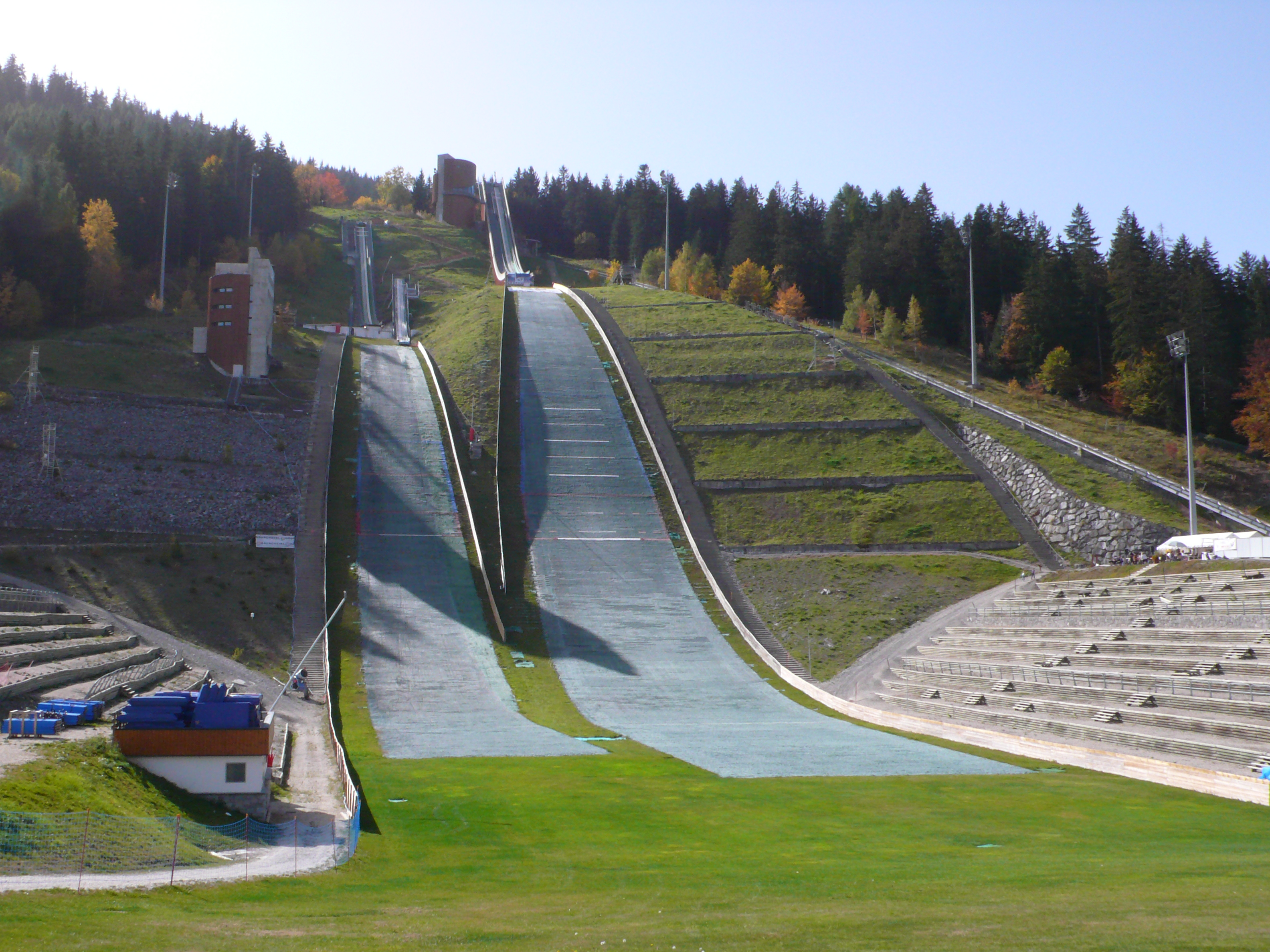 Le Praz - ski jumping hills in Courchevel : K120, K90, K60